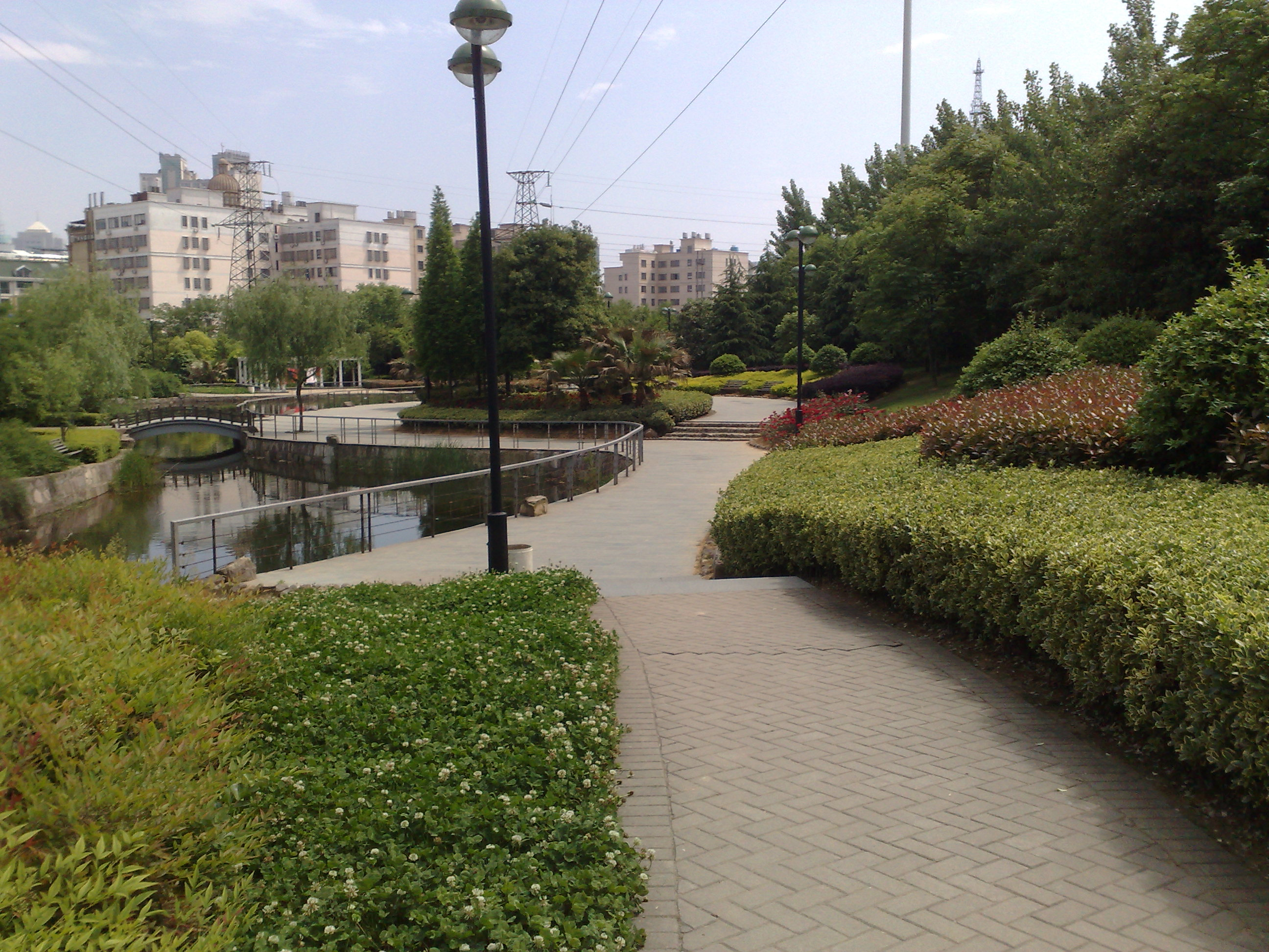 A Park on the river in Yiwu, Zhejiang, China